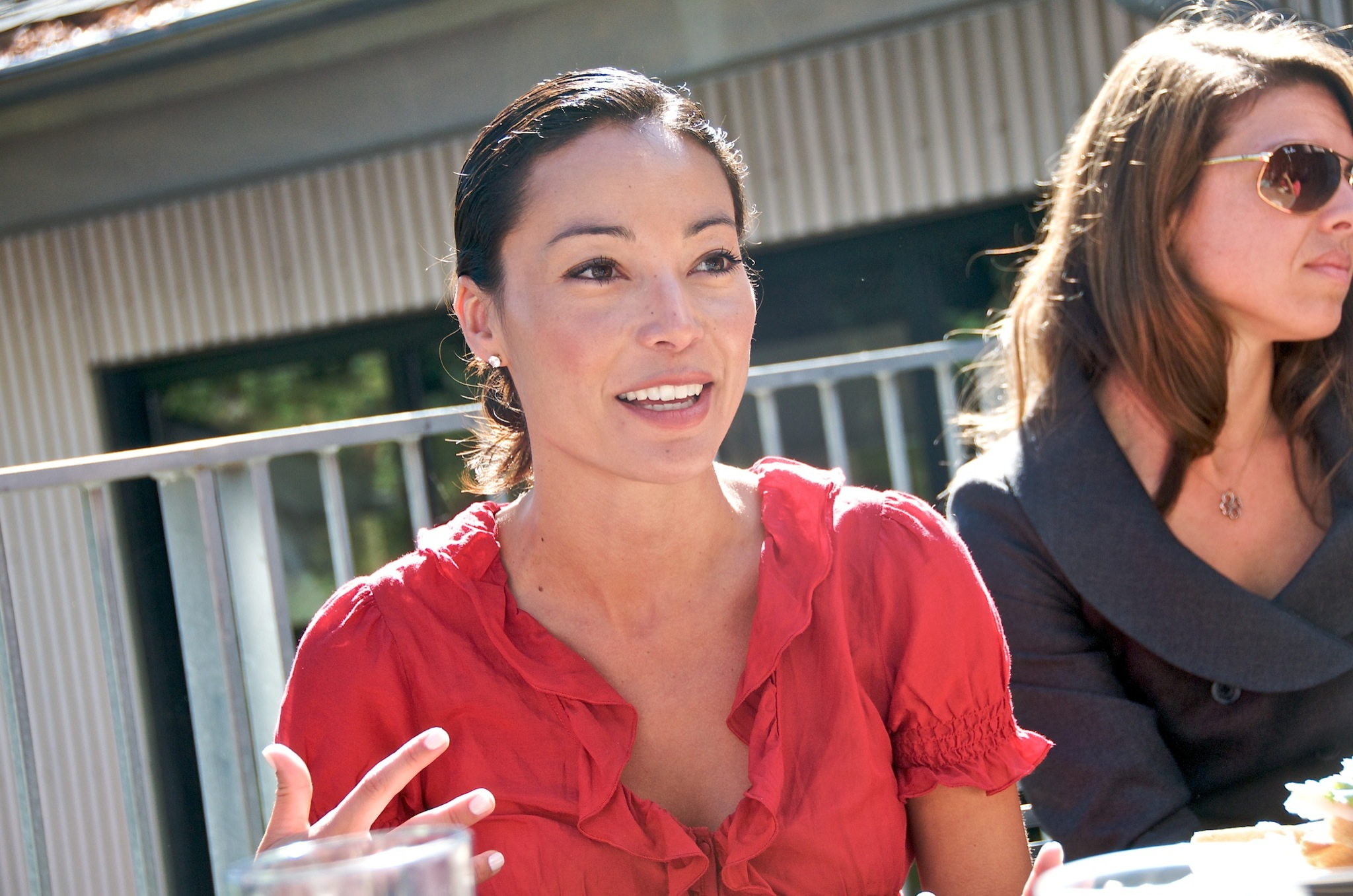 Adriana at lunch during the first Girls in Tech retreat.